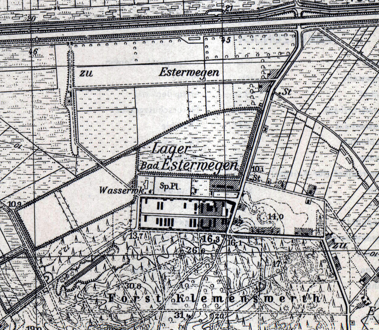 Public Domain according to source: "Copyright Status/Owner -Public Domain, Courtesy Harold B. Lee Library, Brigham Young University".